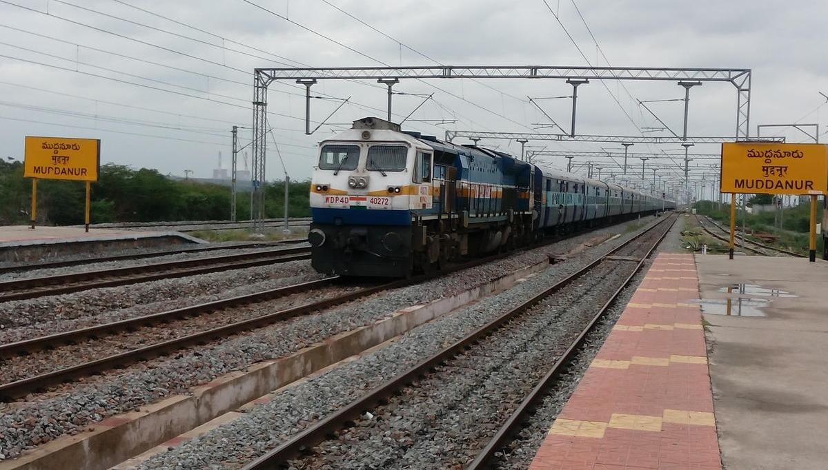 Gy wdp4 with APSK